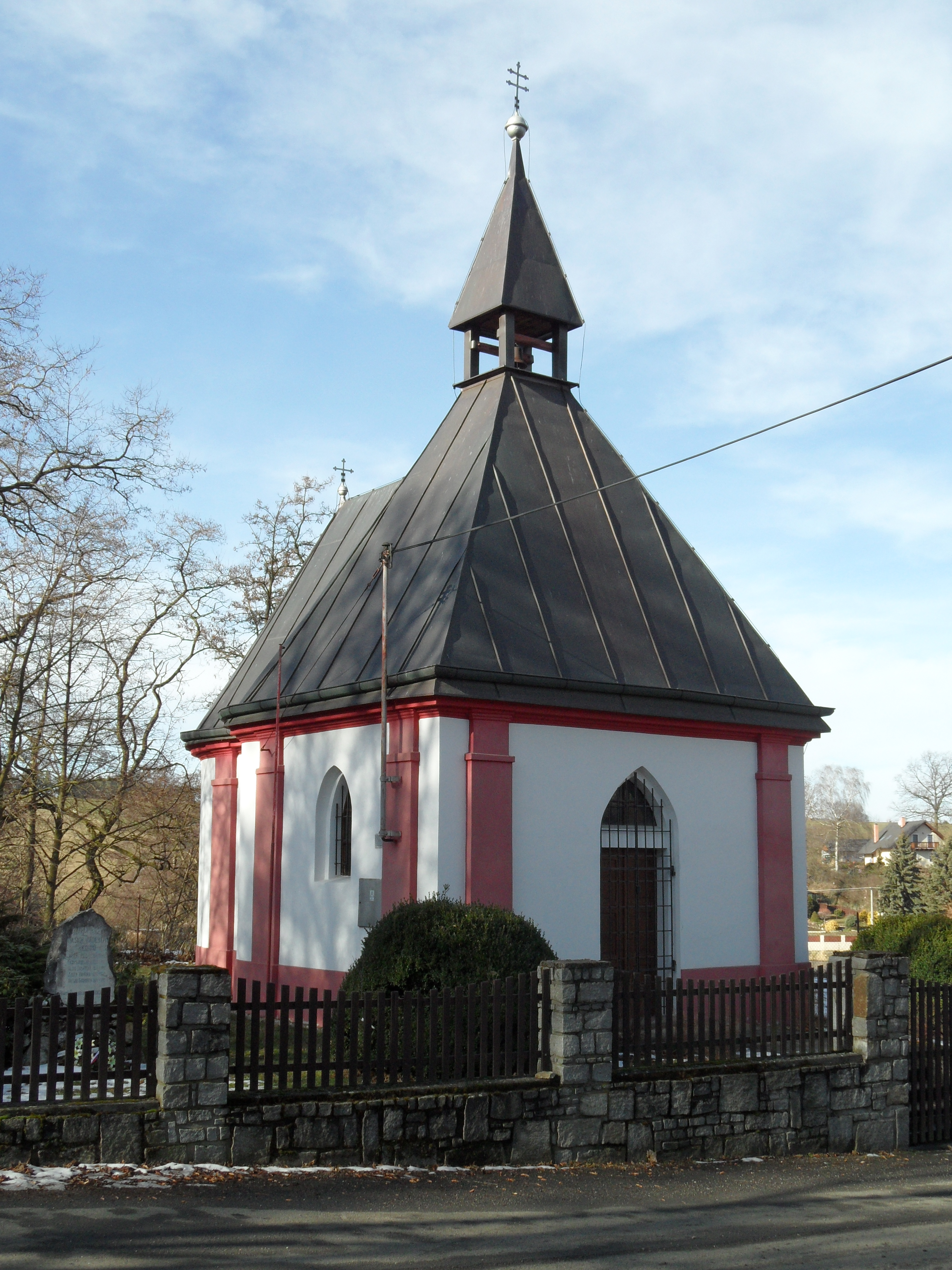 Opatovice I. i. Small Church and Memorial of Victims of WW1, Kutná Hora District, the Czech Republic.